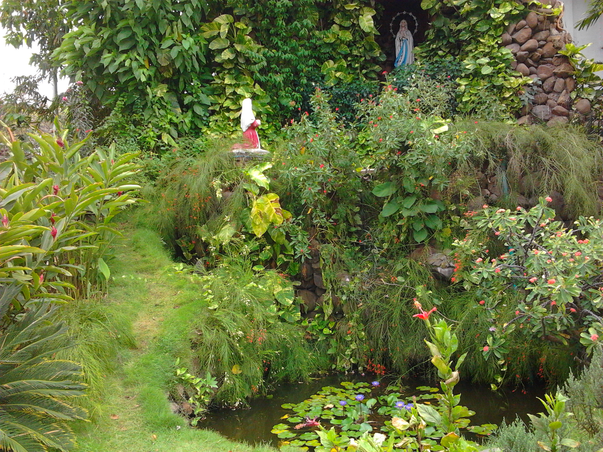 Photoed using Samsung Wave 525.